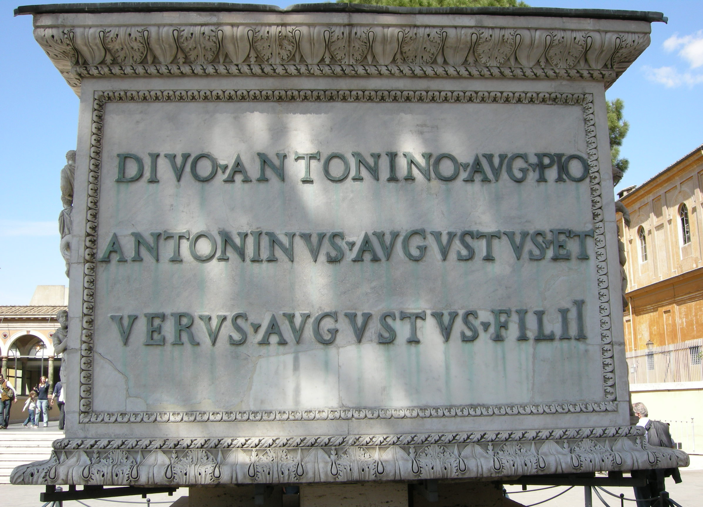 Base of the column of Antoninus. Literally translated, the inscription reads: To divine Antoninus Augustus the Pious, [from] Antoninus Augustus and Verus Augustus, his sons.